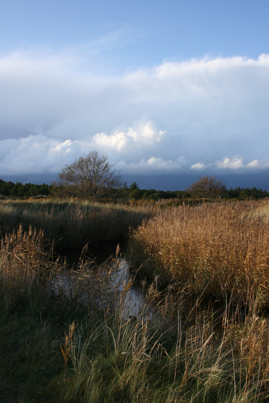 An estuary on the Kattegat-coast near Ålbæk, Denmark.